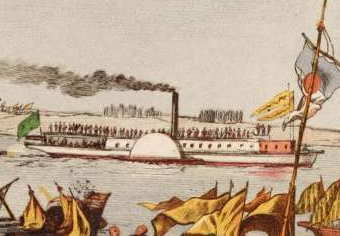 Lithograph of the steamer Firefly during the Taiping Rebellion from the autobiography "Ti-Ping Tien-Kwoh" by Augustus Frederick Lindley, 1866, with lithographs by Day & Son (Limited)